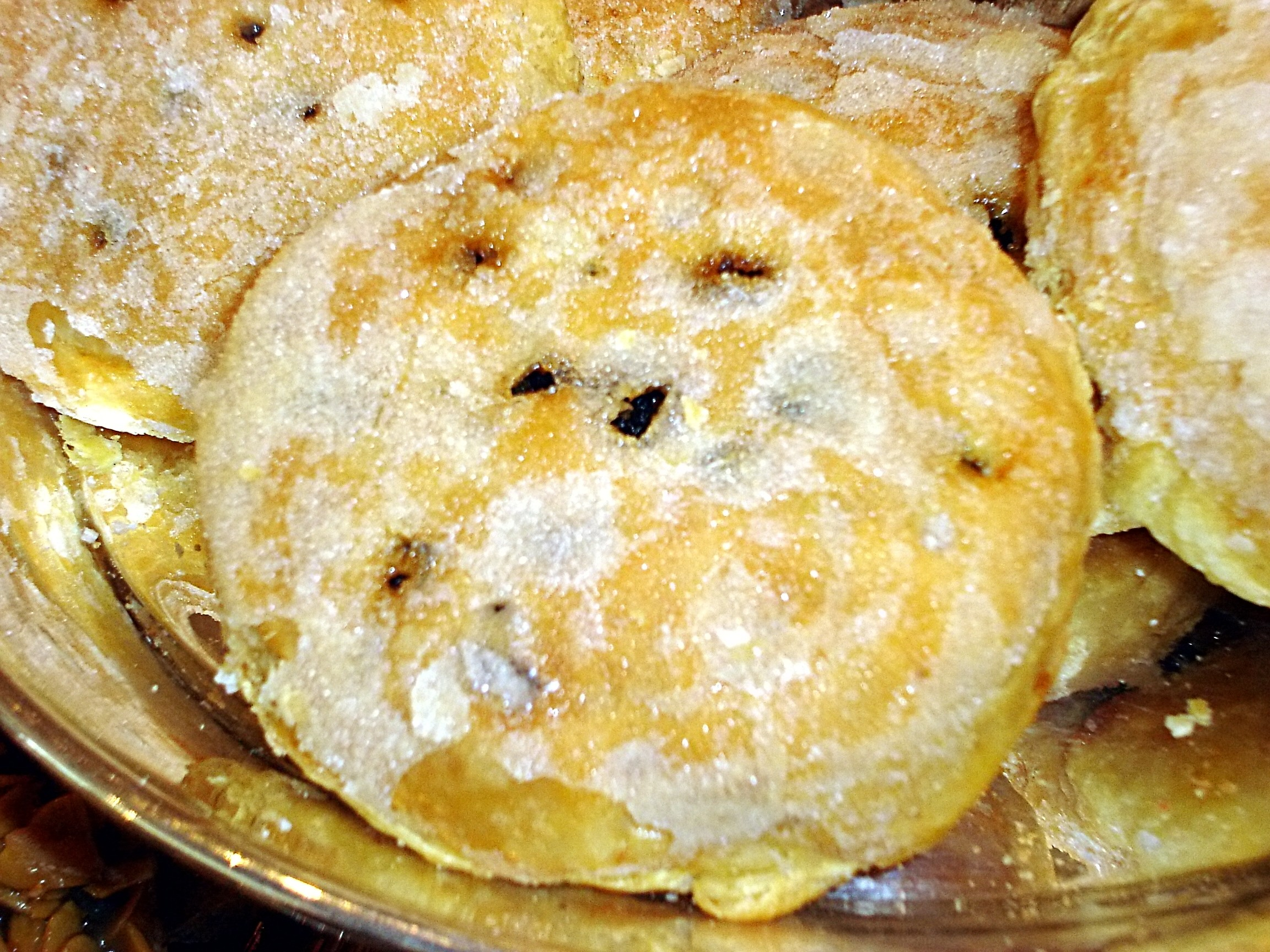 A freshly baked Eccles cake, taken in Bettys café.